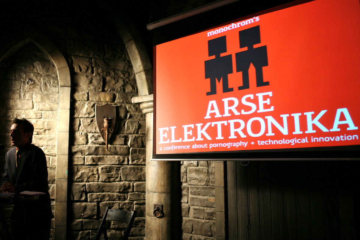 Mark Dery giving a talk at Arse Elektronika 2007